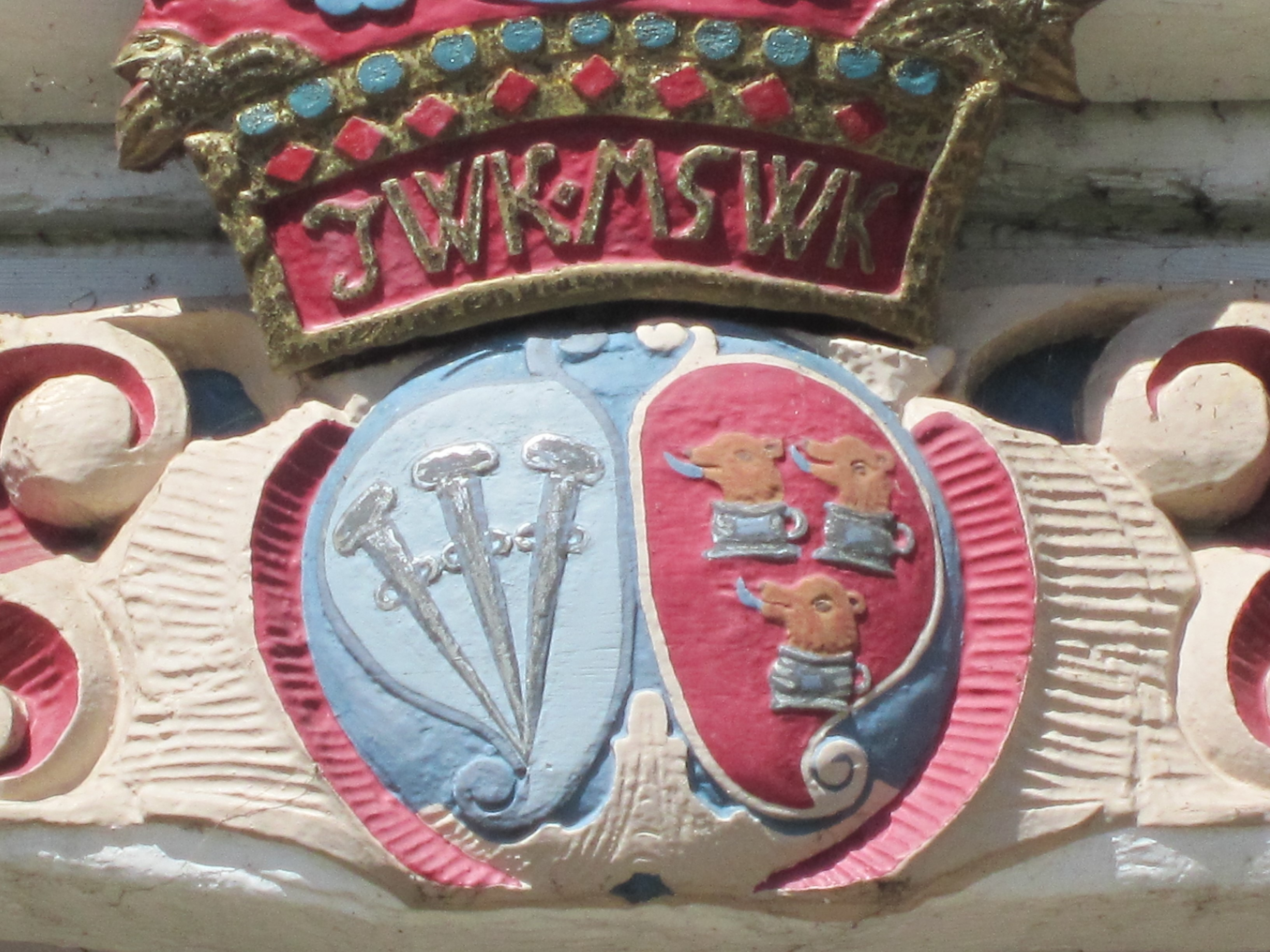 Coat of arms of the Haren family above the entrance of Jork City Hall